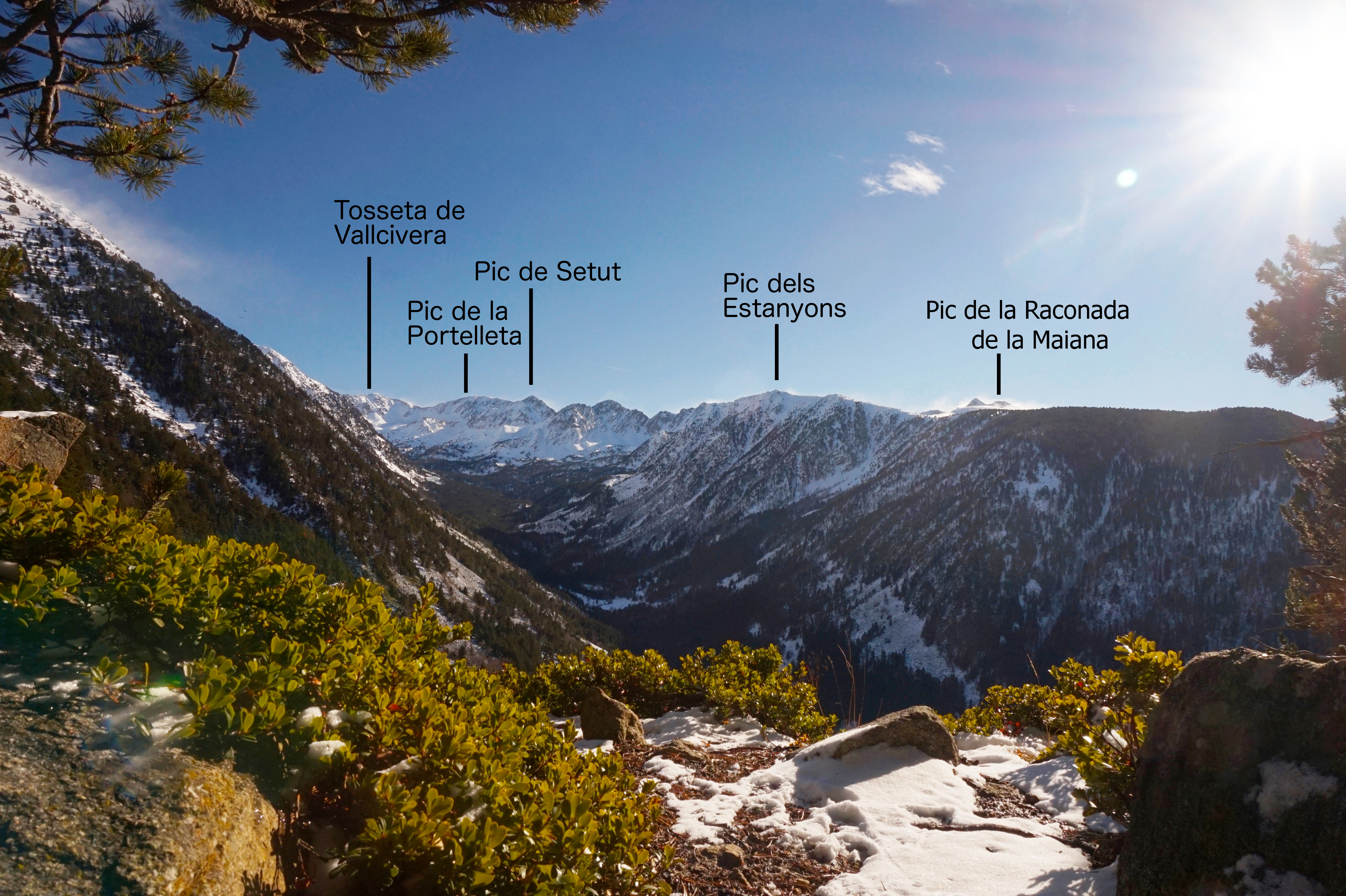 Overall view of the Madriu valley